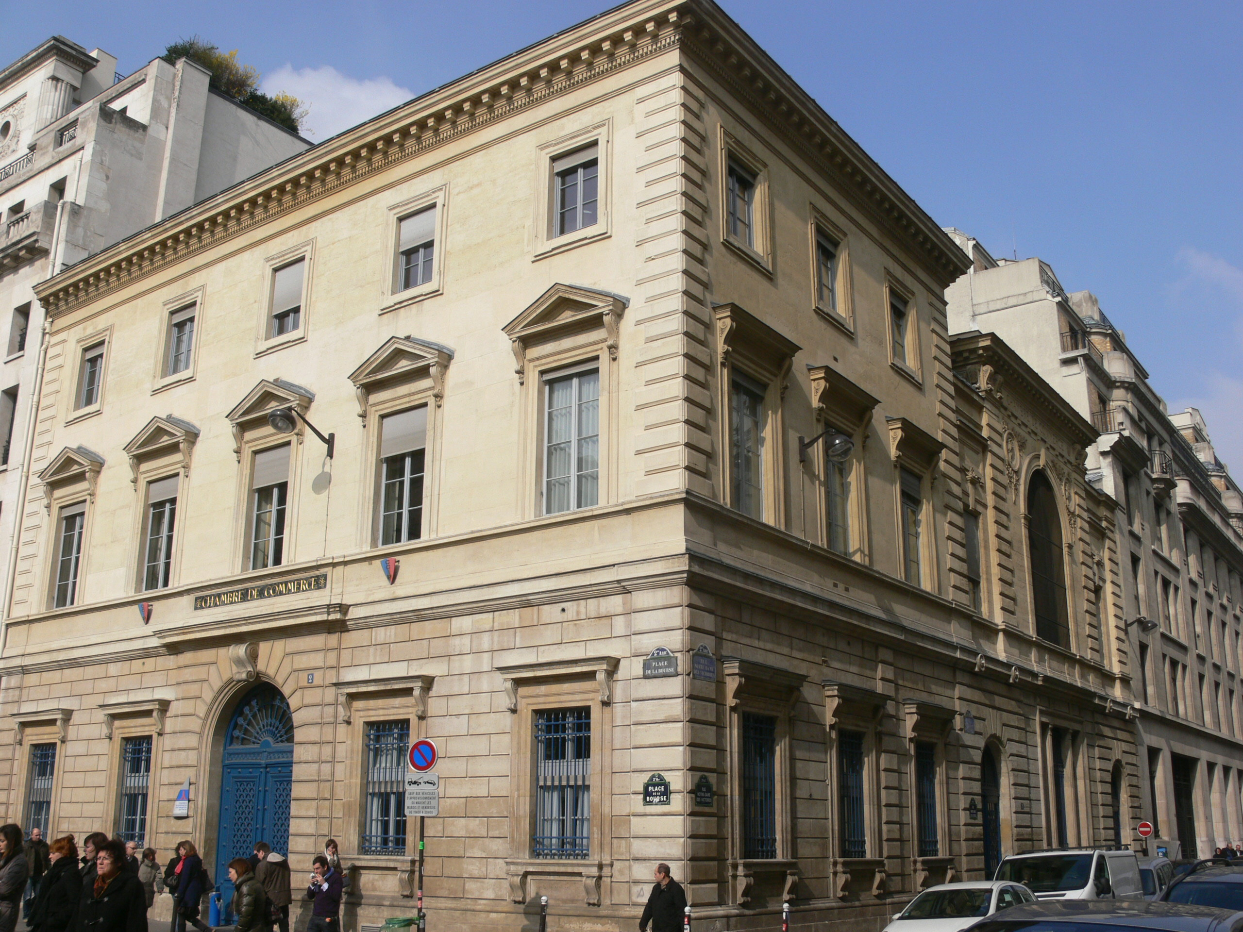 Chambre de commerce of Paris, Place de la Bourse and rue Notre-Dame-des-Victoires